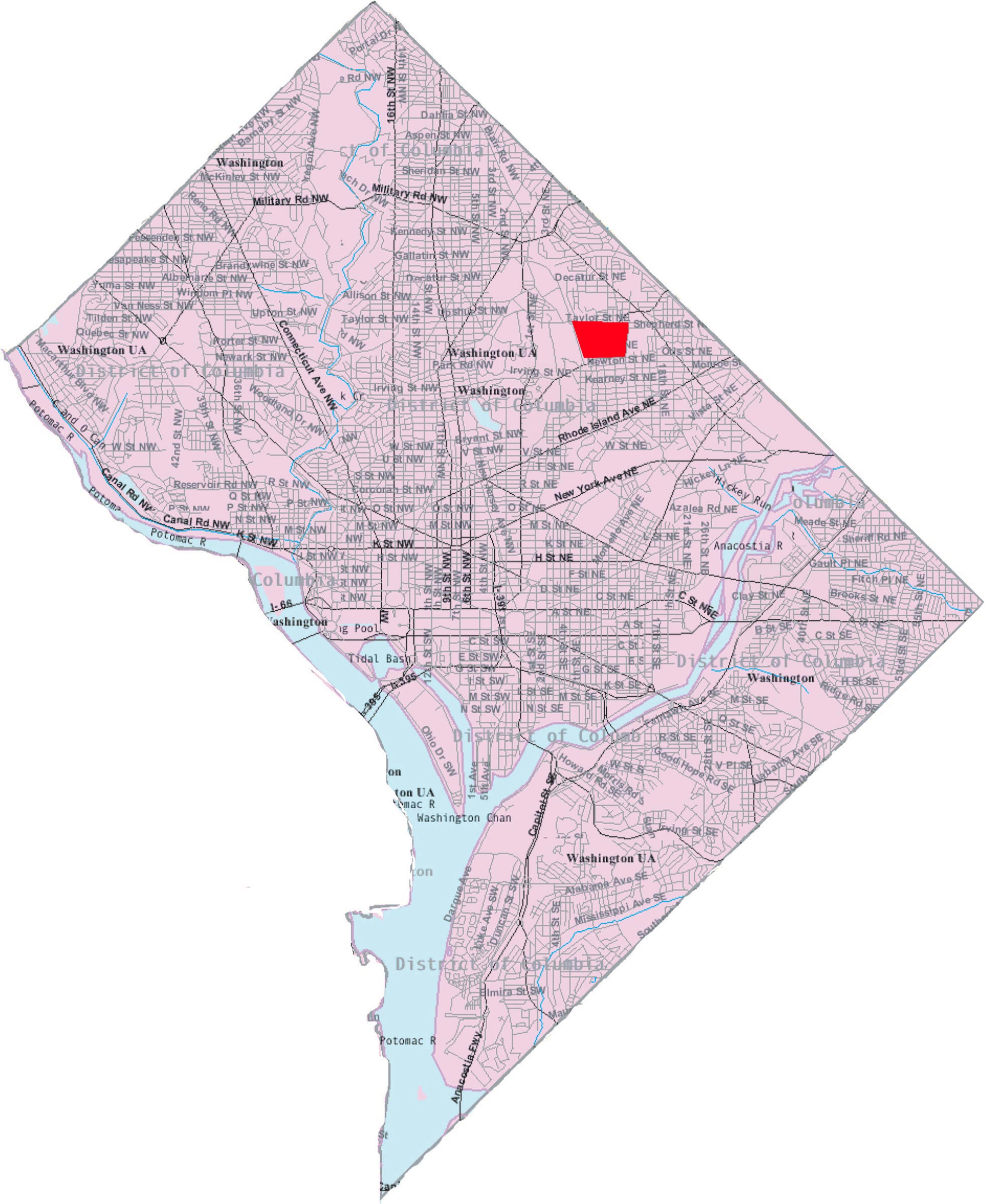 This image is a modified version of a self-generated reference map from the U.S. Census Bureau's American Factfinder at by Wikipedia user Msclguru.